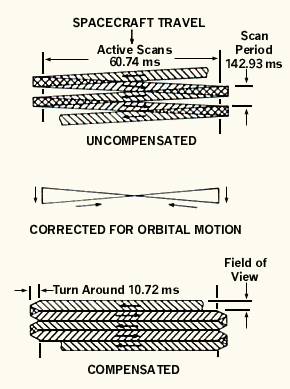 Landsat 7 Scan Line Corrector operation from the Landsat 7 Science Data Users Handbook The Scan Line Corrector (SLC) is an electro-optical mechanism composed of two parallel nickel-plated beryllium mirrors set at an angle on a shaft. The shaft, driven by a torquer which has primary and redundant tachometers, rotates about an axis normal to the axis of the scan mirror in a sawtooth fashion. The SLC is positioned behind the primary optics and compensates for the along track motion of the spacecraft that occurs during an active SMA cross track scan. A rectilinear scan pattern is produced using the SLC instead of the zig-zag pattern that would be produced without it.